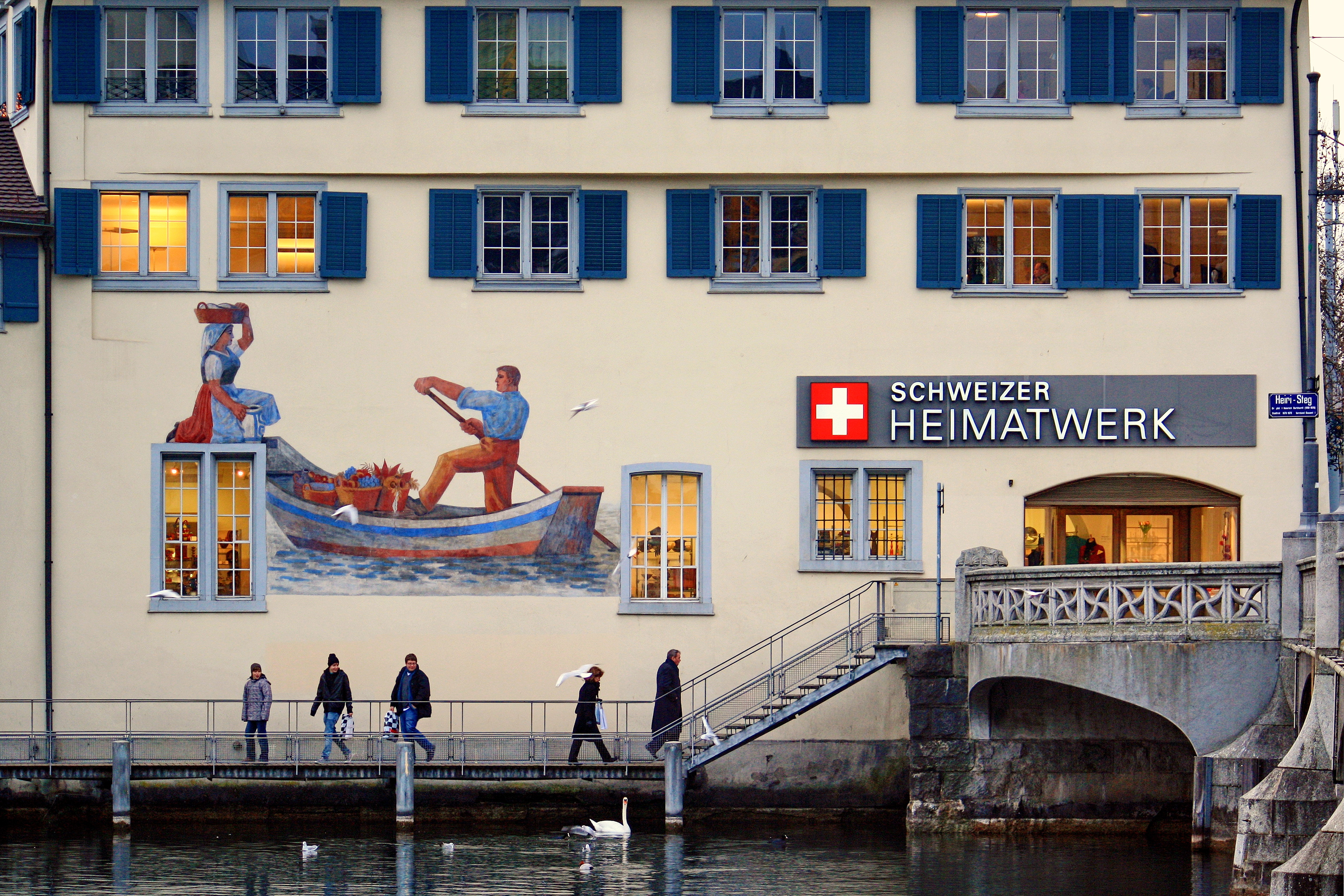 Zürich : Schipfe and Lindenhof hill, as seen from Limmatquai, Heimatwerk building to the right.